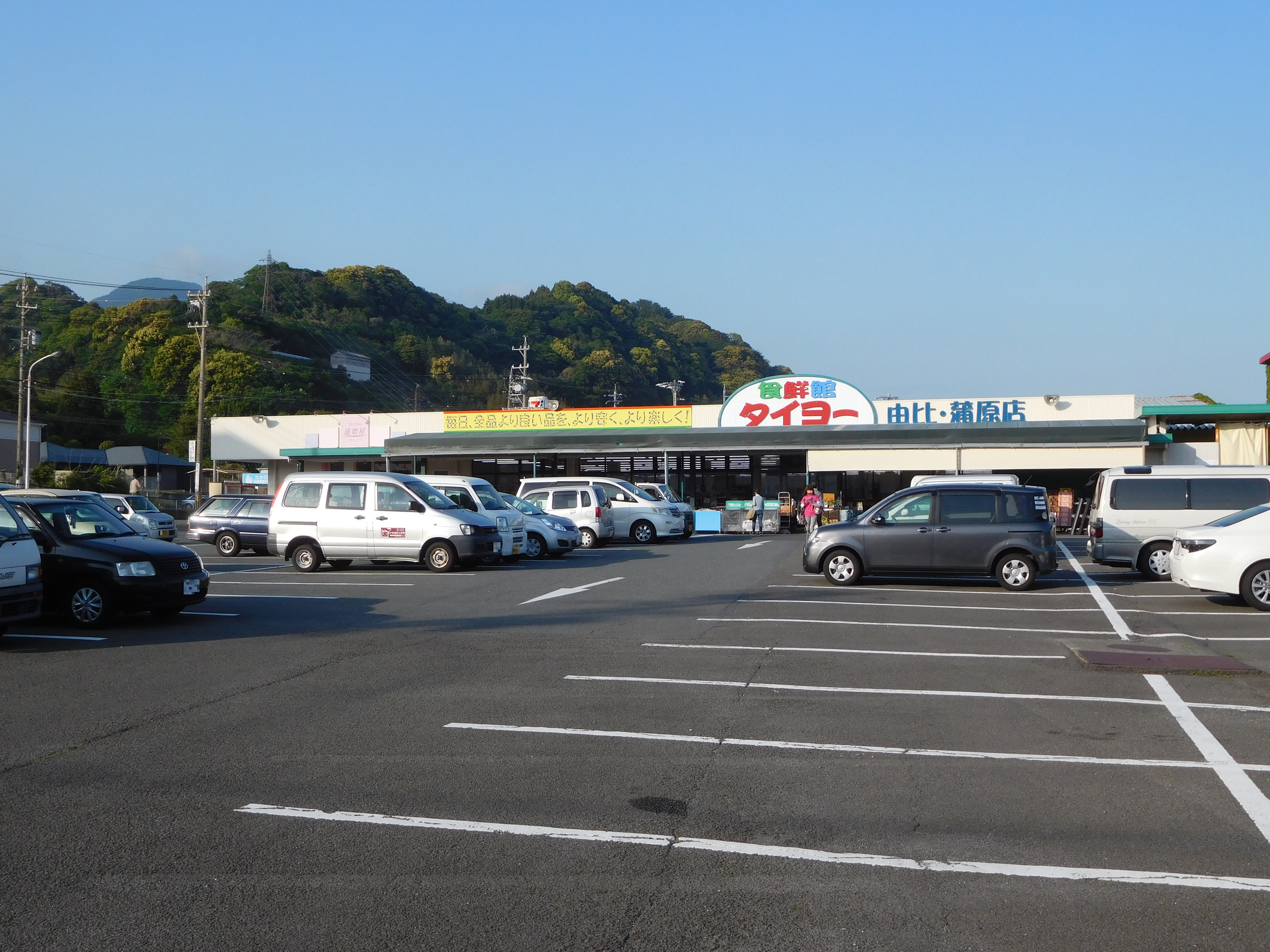 This is a supermarket in Shimizu-ku, Shizuoka city, Shizuoka pref., Japan.